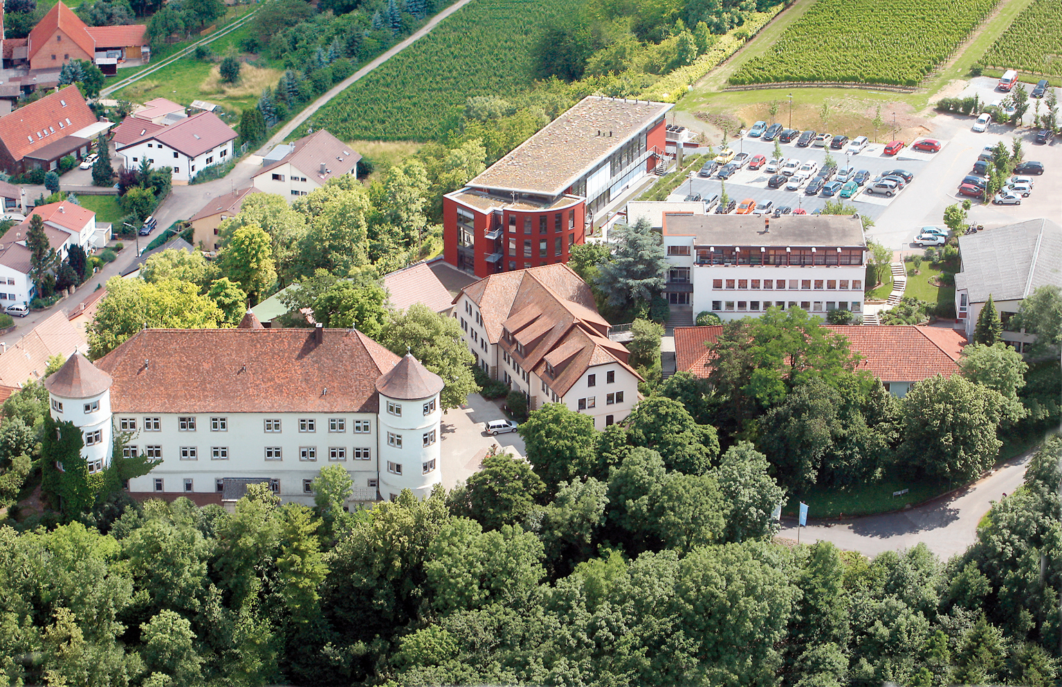 Hohenstein castle in Boennigheim (Germany) - headquarter of the Hohenstein Institute